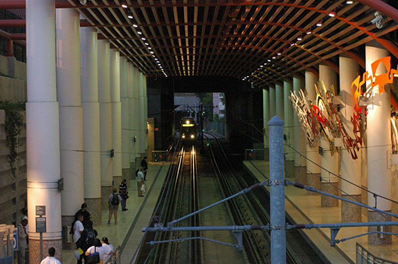 Passengers at the Memorial Park Station in Pasadena await as a Gold Line train approaches the platform